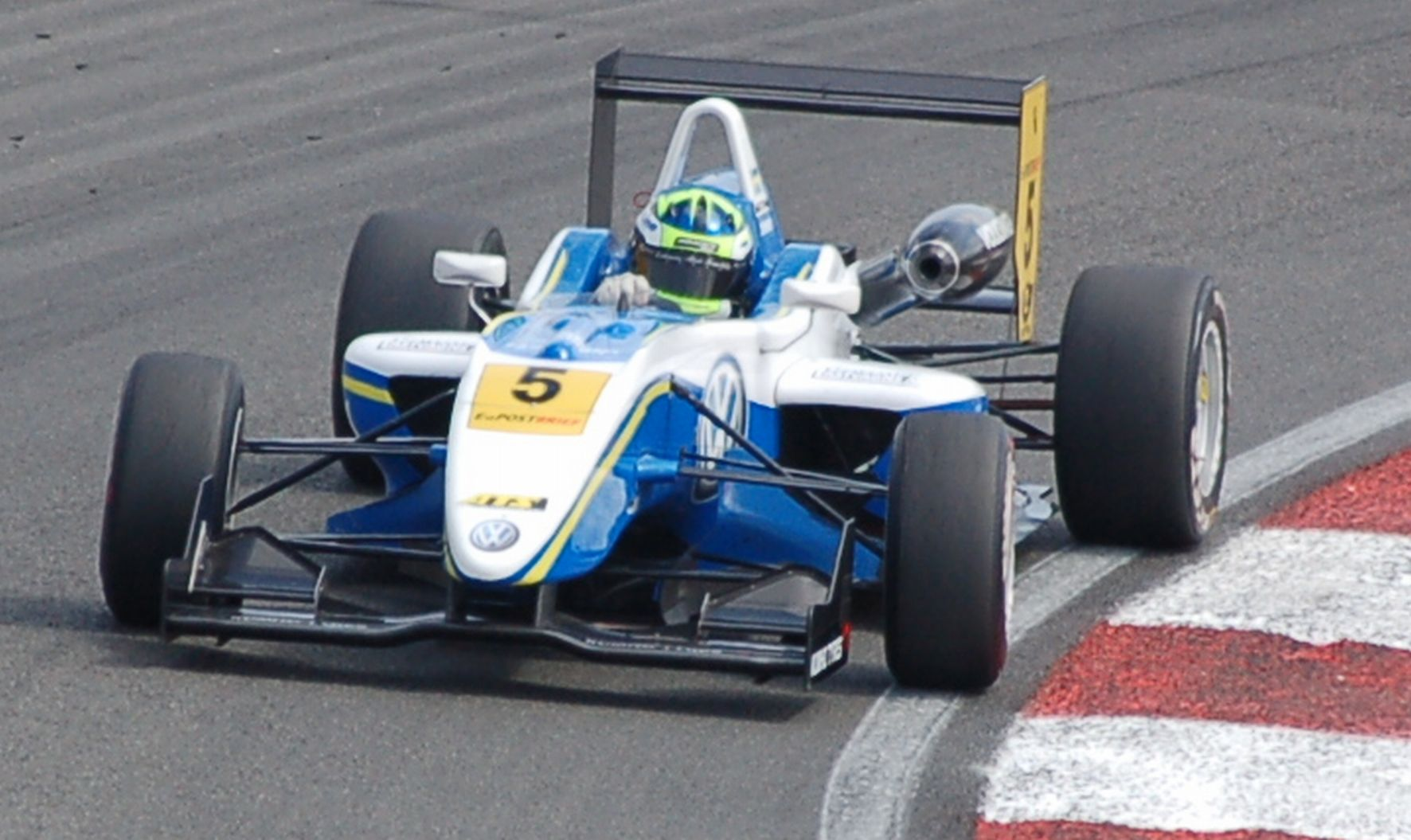 Jimmy Eriksson at Zandvoort 2011